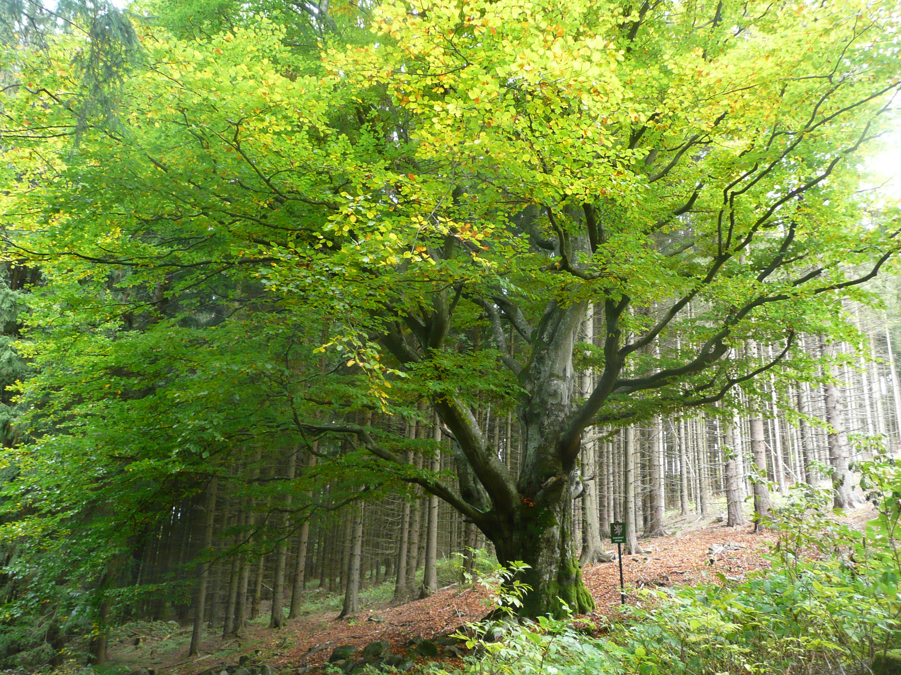 Famous tree Buk na Ždánově close to the village of Nezdice na Šumavě in Klatovy District, Czech Republic